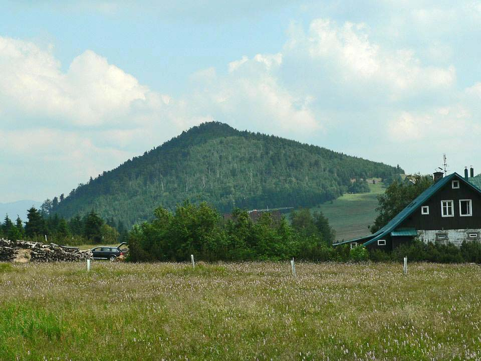 Bukovec Mountain in Jizera Mountains, Czech Republic